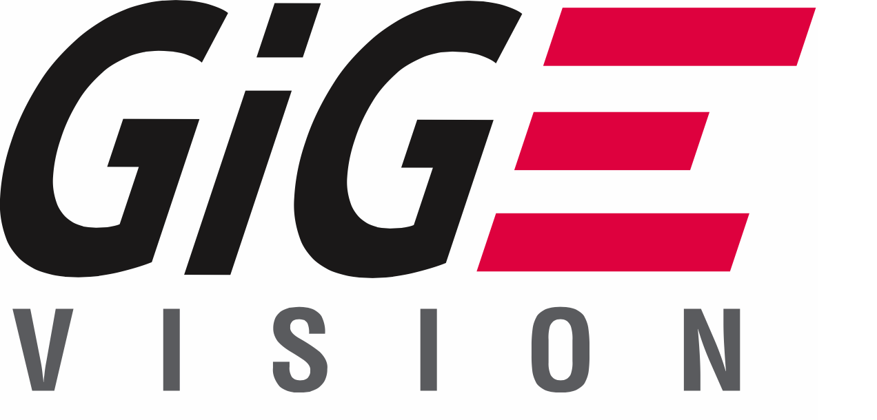 GigE vision logo.